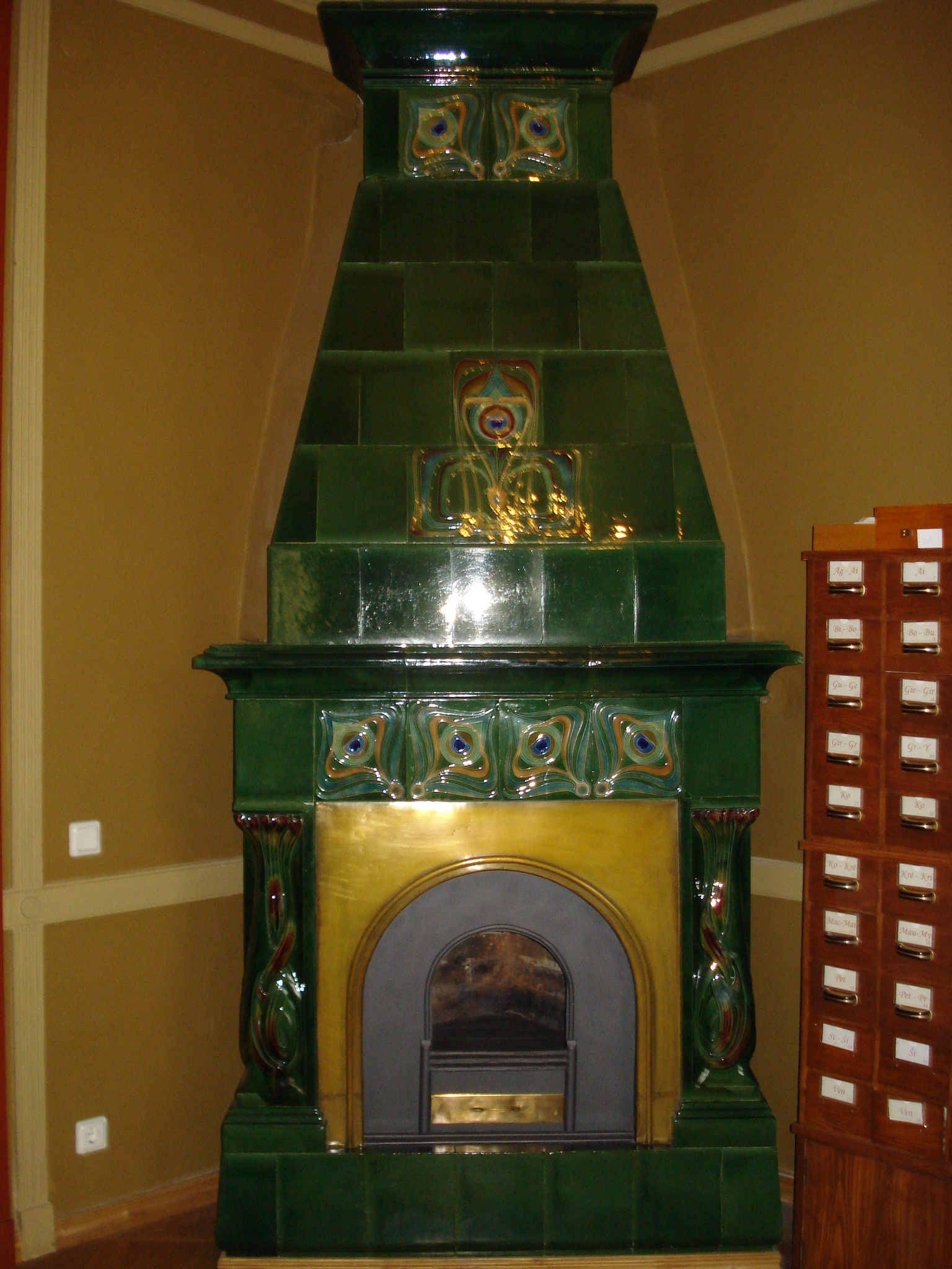 Green tiled stove in the former bedroom of Mrs Vileišienė in the palace of the Vileišis family (now Library of the Institute of Lithuanian Literature and Folklore)